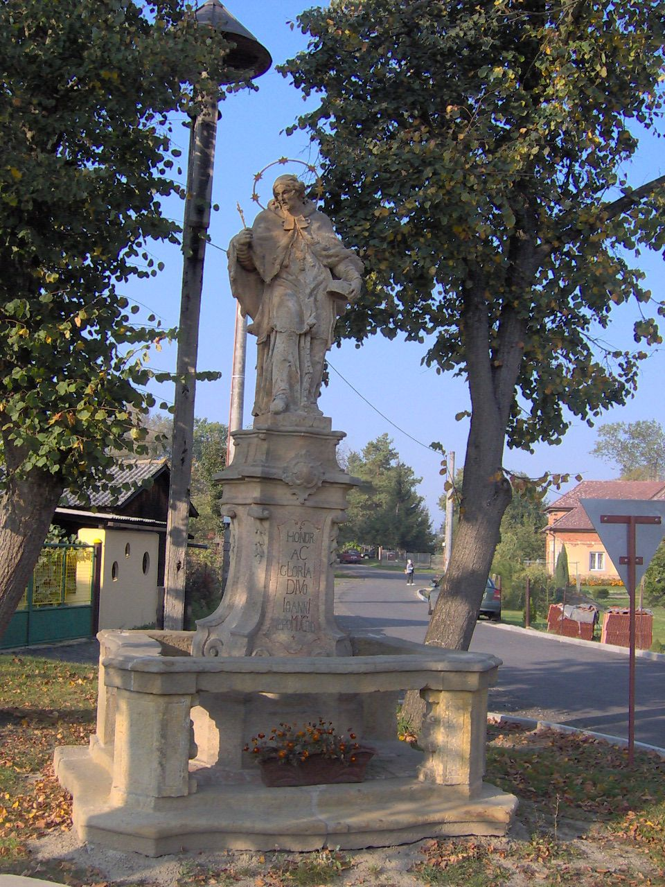 Statue of Saint John of Nepomuk, Šaplava, Hradec Králové Region, Czechia